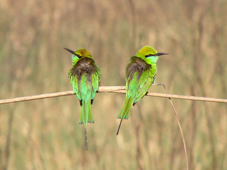 Little Green Bee-eaters (Merops orientalis) at Jim Corbett National Park, Uttarakhand.